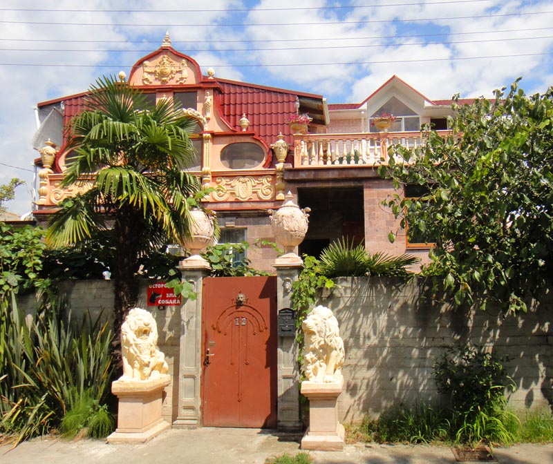 Private house in Dagomys, Sochi